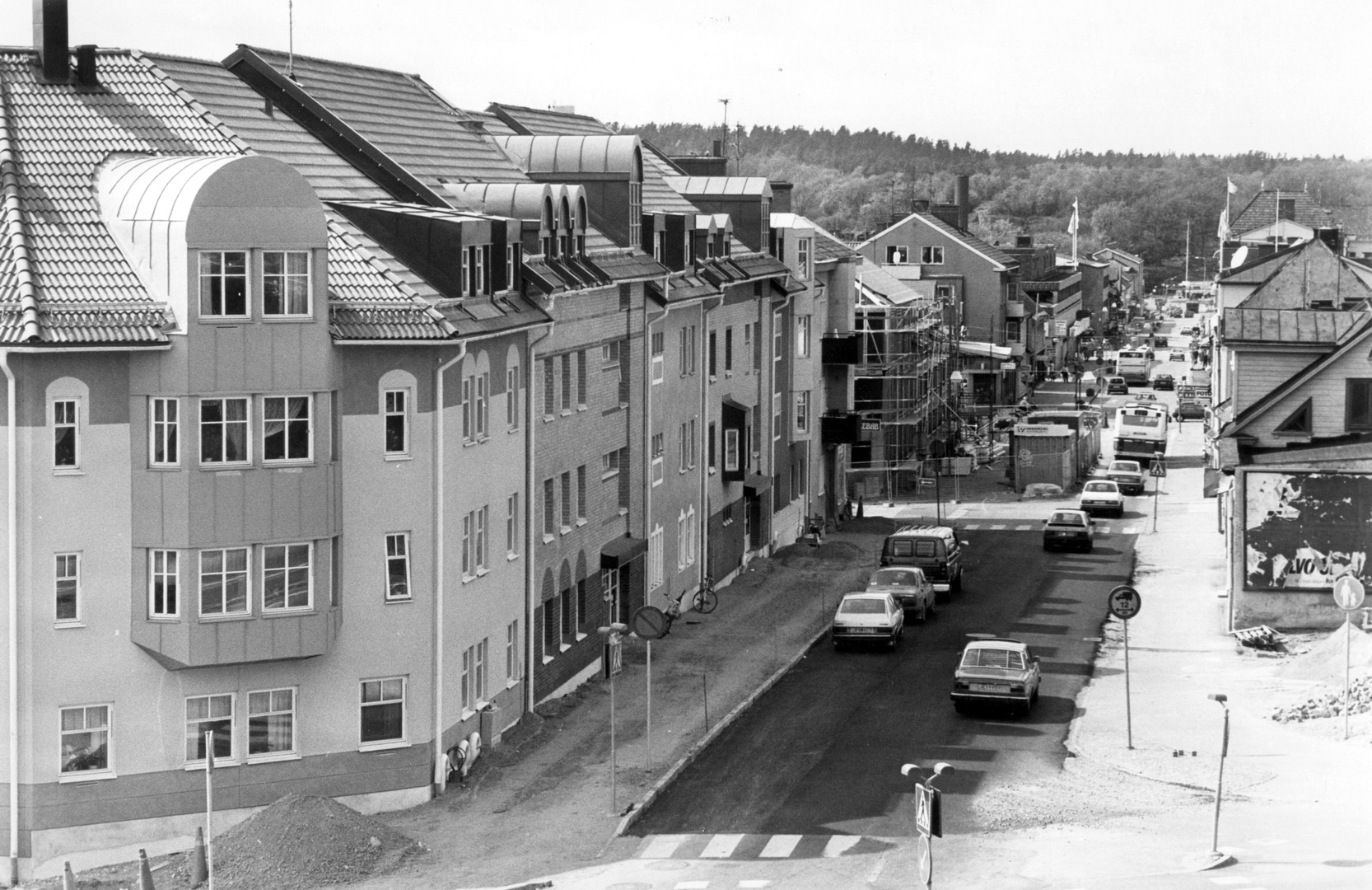 Fotografi från november månad 1989 i samband med färdigställandet av ny bostadsbebyggelse i kvarteret Elsa i Ronneby stad. Fotografiet är taget utmed Kungsgatan i riktning mot väst.